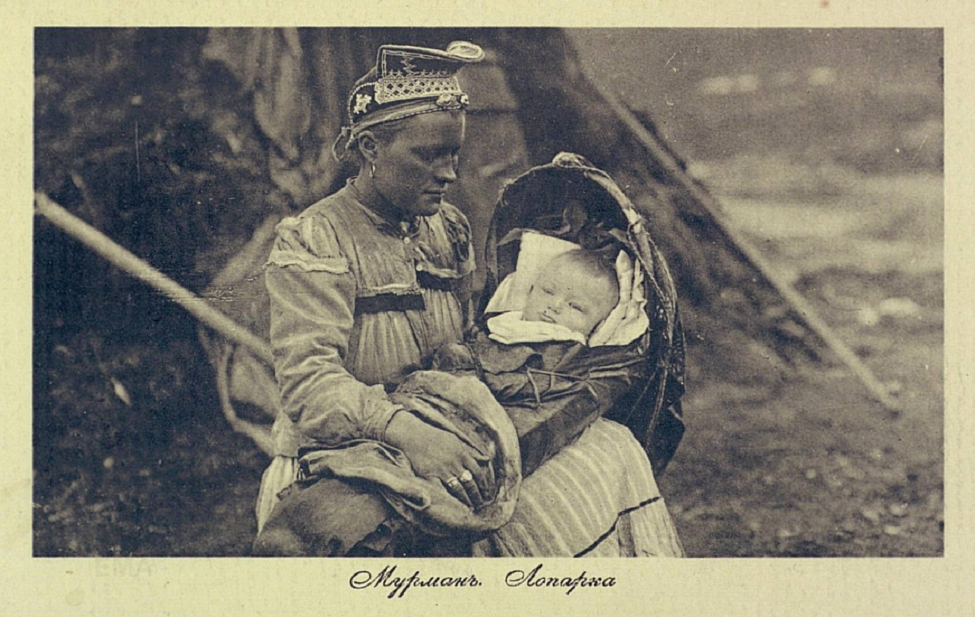 Kola Sami women and a child ("Мурманъ. Лопарка"). A postcard from the Russian Empire. Unknown artist. Unknown publisher, 1911.